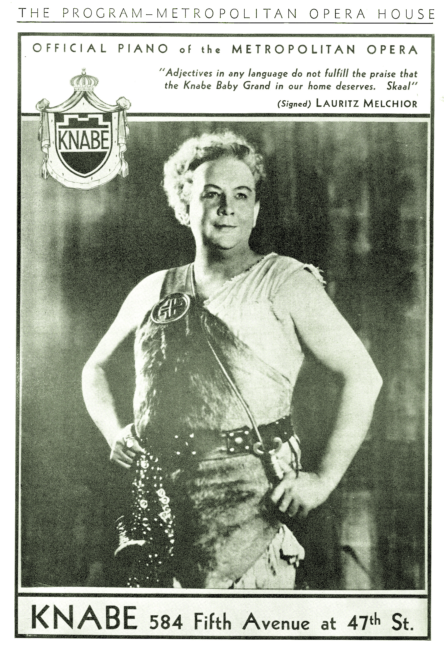 1935 advertisement for Knabe pianos as the "Official Piano of the Metropolitan Opera" including an endorsement by and photograph of Met heldentenor Lauritz Melchior as "Siegmund" in "Die Walküre" by Richard Wagner. (Knabe became the Met's official piano in 1930.)